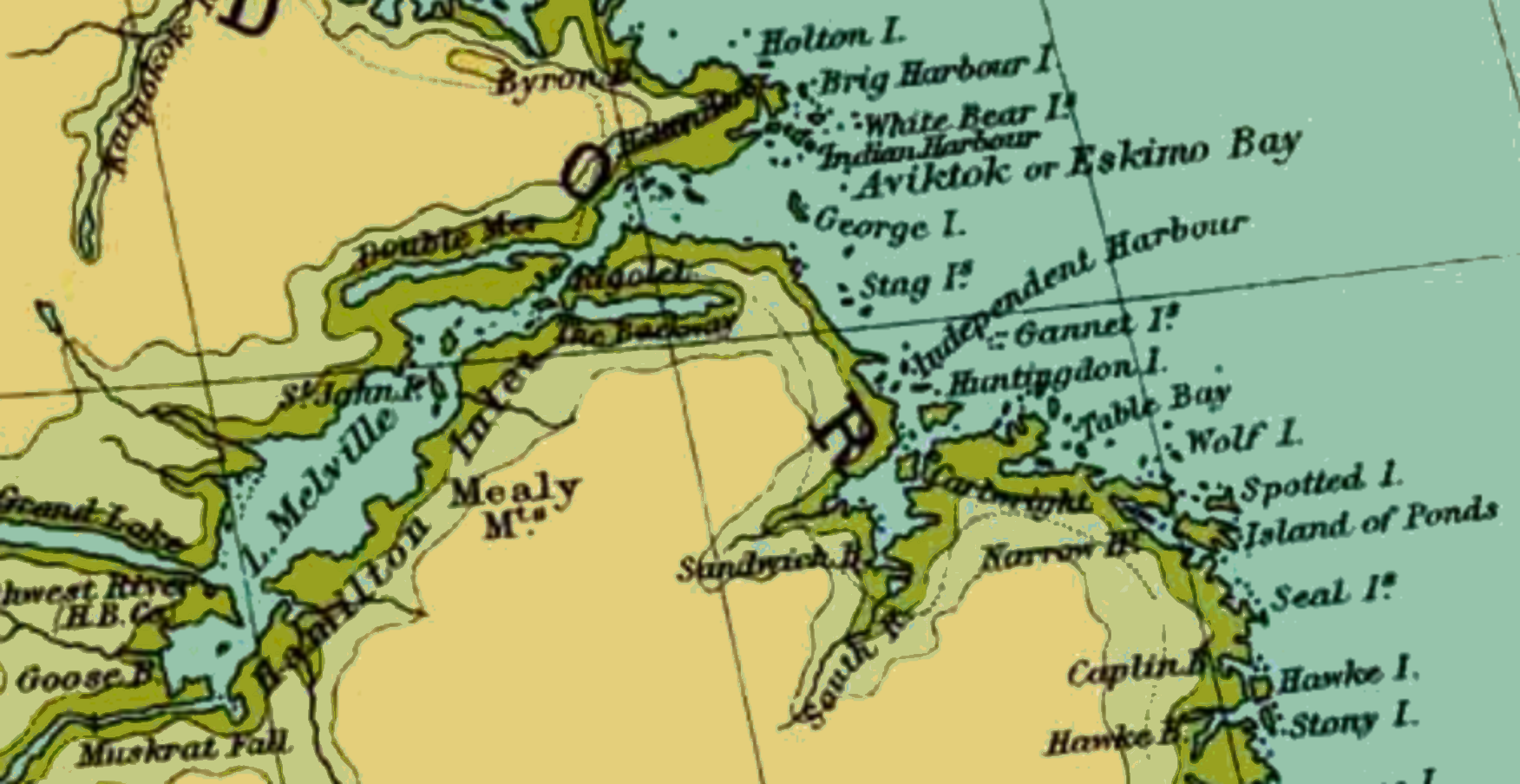 A detail from Labrador from the Most Recent Surveys, showing the Lake Melville - Hamilton Inlet - Groswater Bay System. Hamilton Inlet is (as shown here) generally inclusive of Lake Melville, which is itself not a lake but a mostly inclosed inlet.